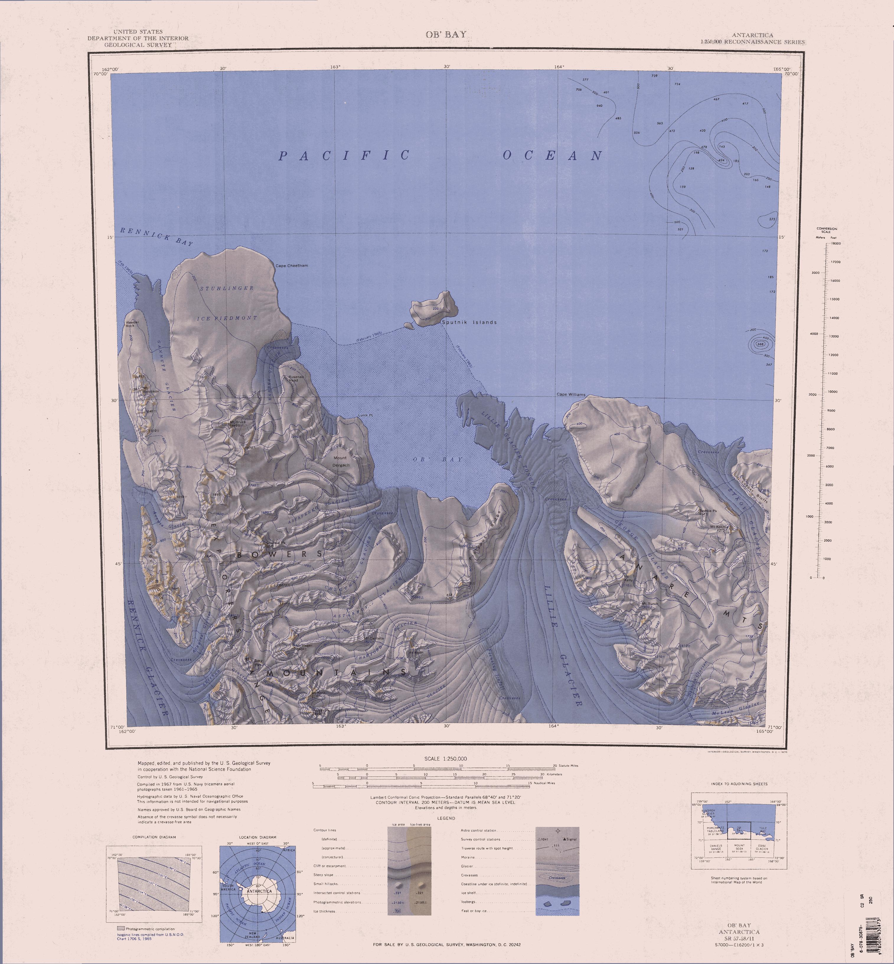 1:250,000-scale topographic reconnaissance map of the Ob' Bay area from 162°-165°E to 70°-71°S in Antarctica, including Lillie Glacier. Mapped, edited and published by the U.S. Geological Survey in cooperation with the National Science Foundation.